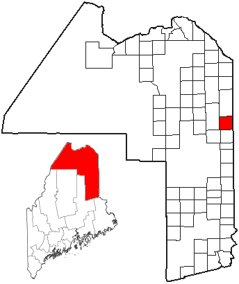 Adapted from U.S. Census Bureau maps (American FactFinder) and Wikipedia's ME county maps by Bumm13.